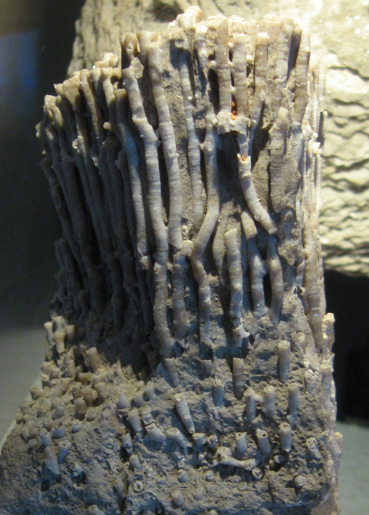 A mass of Syringopora sp coral ~6cm tall from Eureka Co., Nevada, USA ~420 million years old. Photographed at Dinoday 2009.